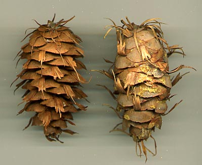 Rocky Mountain Douglas-fir cones - photo MPF Left: var. caesia, Shuswap Lake, British Columbia, Canada Right: var. glauca, Chiricahua Mountains, Arizona, USA